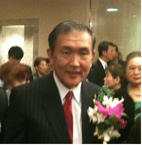 Koki Kobayashi